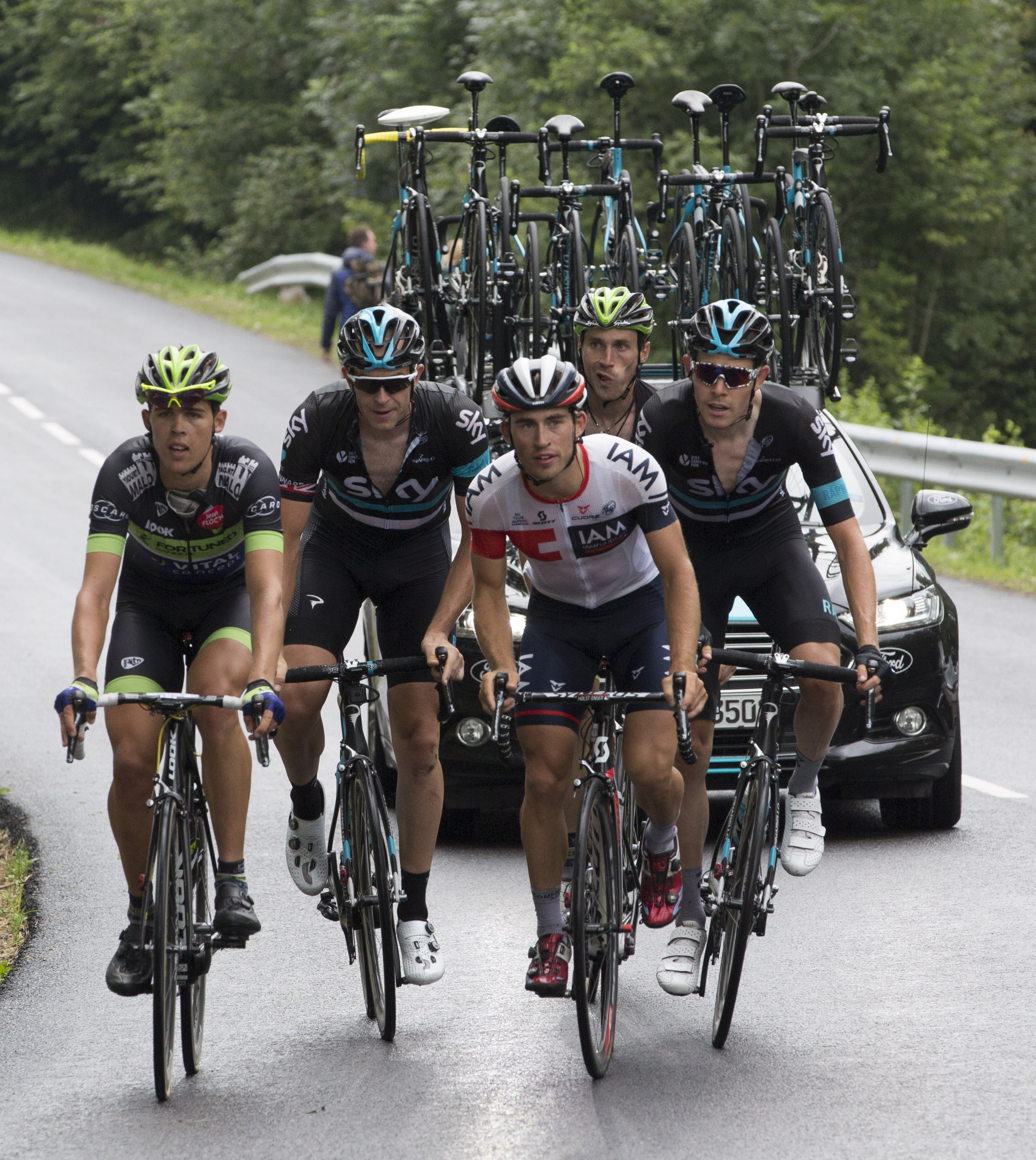 Stage 19 - Albertville to Saint-Gervais Mont Blan